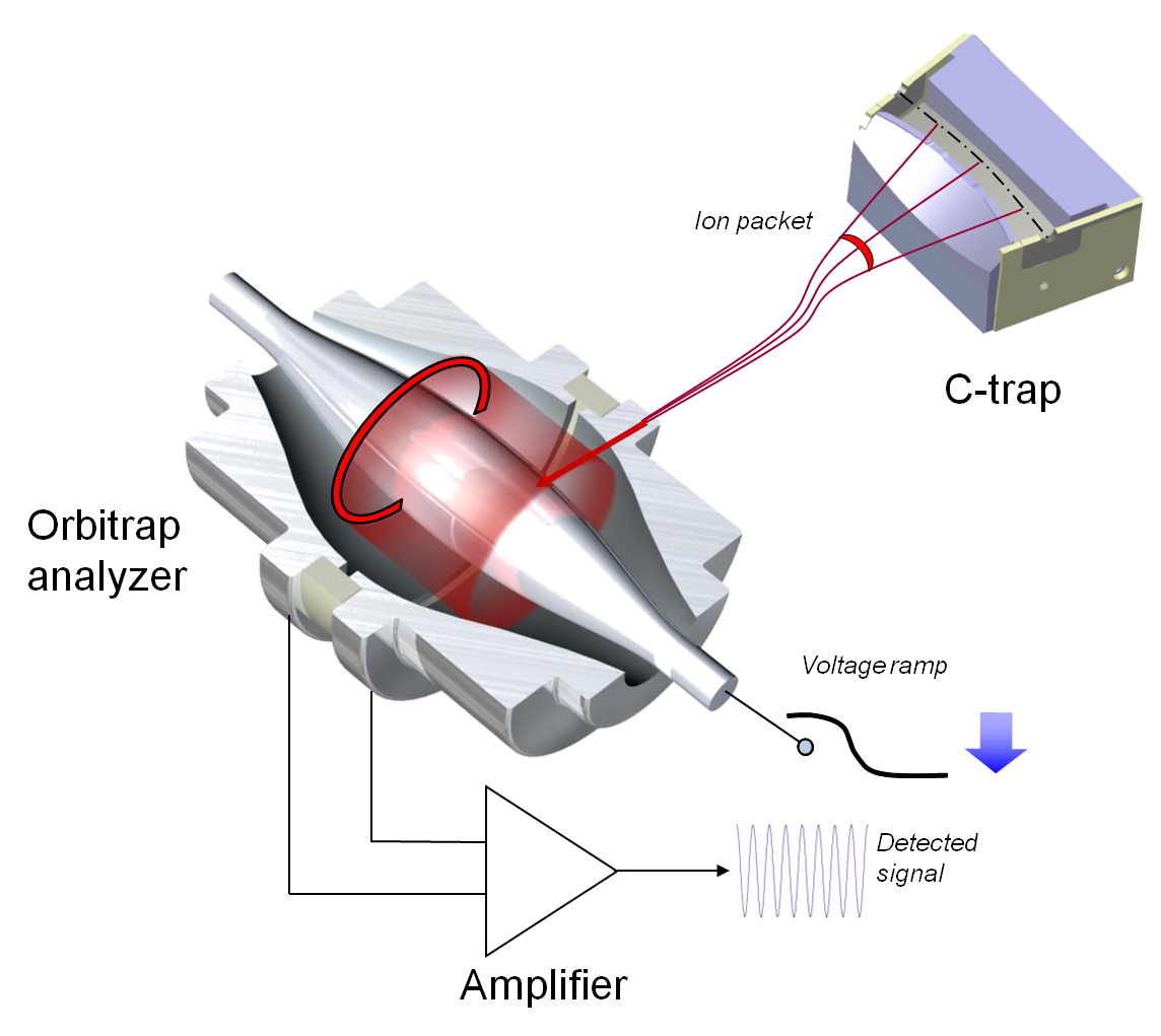 Ion injection into an Orbitrap mass analyzer, showing the rf injector ion trap and the Orbitrap electrostatic ion trap. Path of ions is symbolized by red lines. Insets show the potential variation on the central electrode during ion injection and a signal that would be detected between the outer electrodes after ion injection.